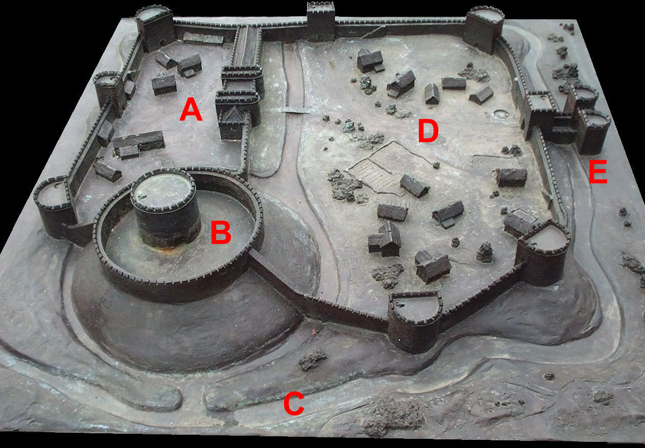 A labelled version of Bedford Castle model. Sculptor:- Aron McCartney.